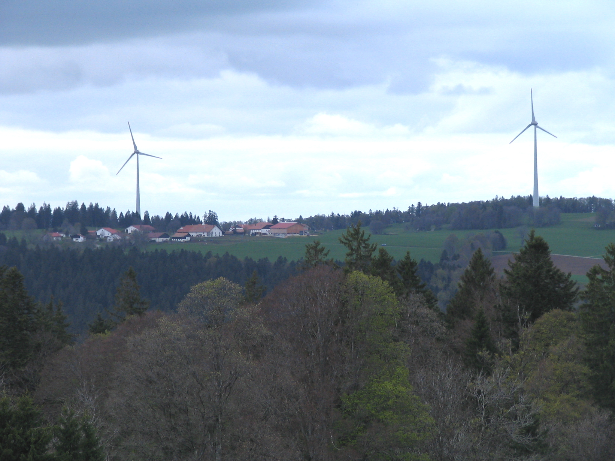 Wind farm Peuchapatte in Muriaux in the canton of Jura in Switzerland.